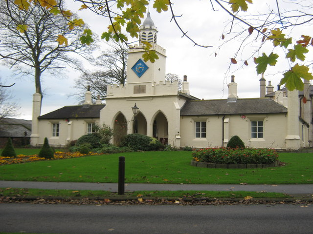 The Hospital of God Greatham Village Now residences for the elderly near Hartlepool